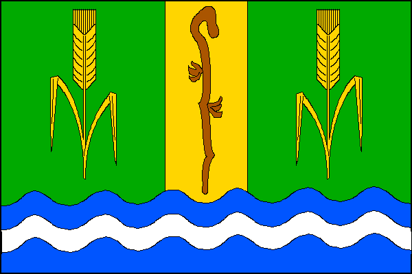 Municipal flag of Velenice village, Nymburk District, Czech Republic.